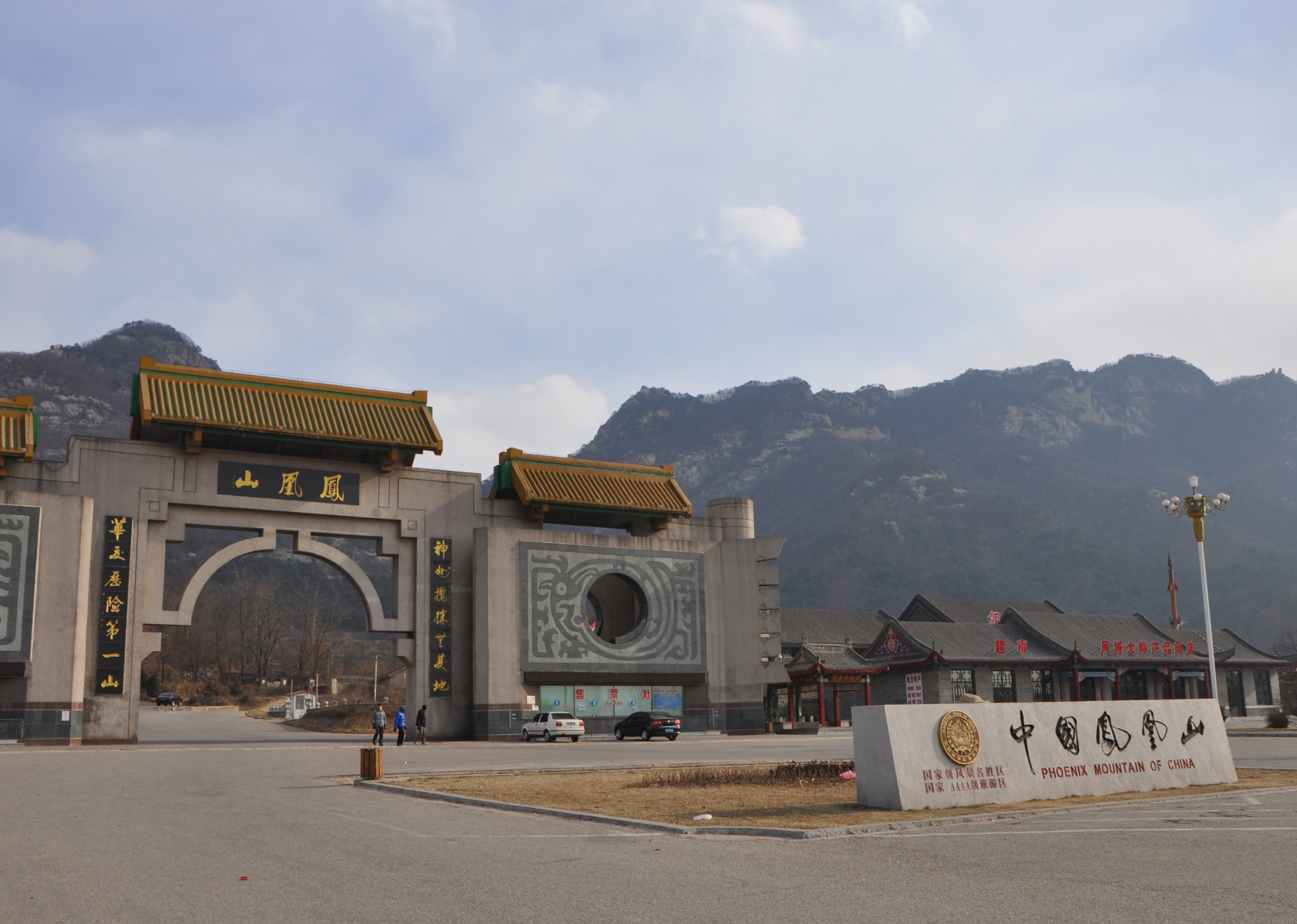 Fenghuang Mountain, Fengcheng, Dandong, Liaoning, China